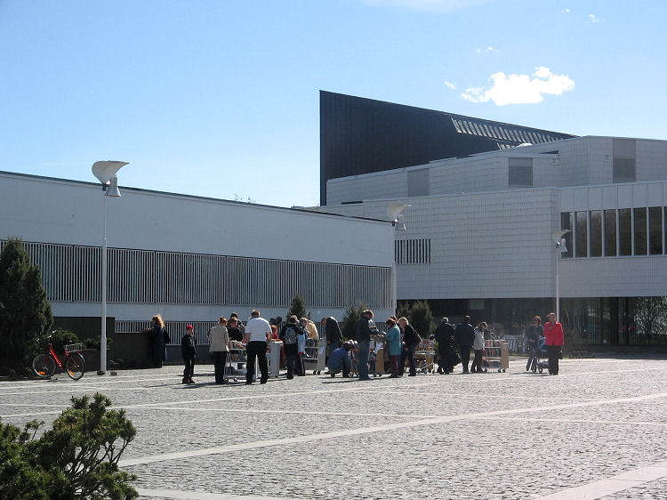 Seinäjoki City Library, Aalto Library (left)